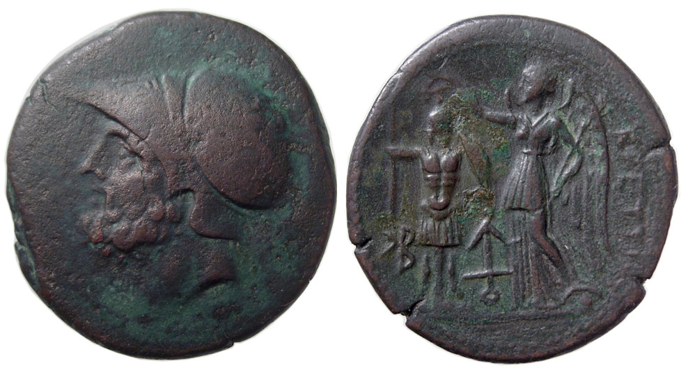 Bruttium Bretti, Ae Sxtans, c. 215-205 AD. Reference: SNG ANS 43.